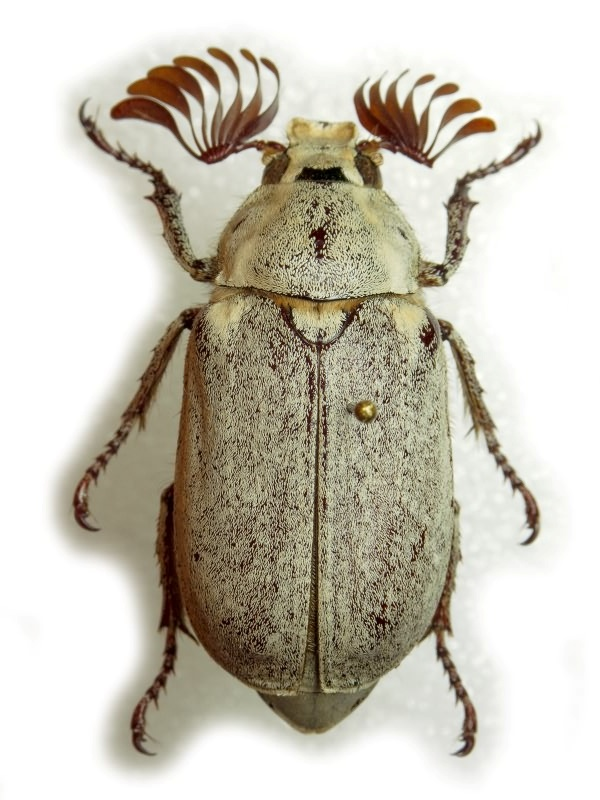 Polyphylla alba